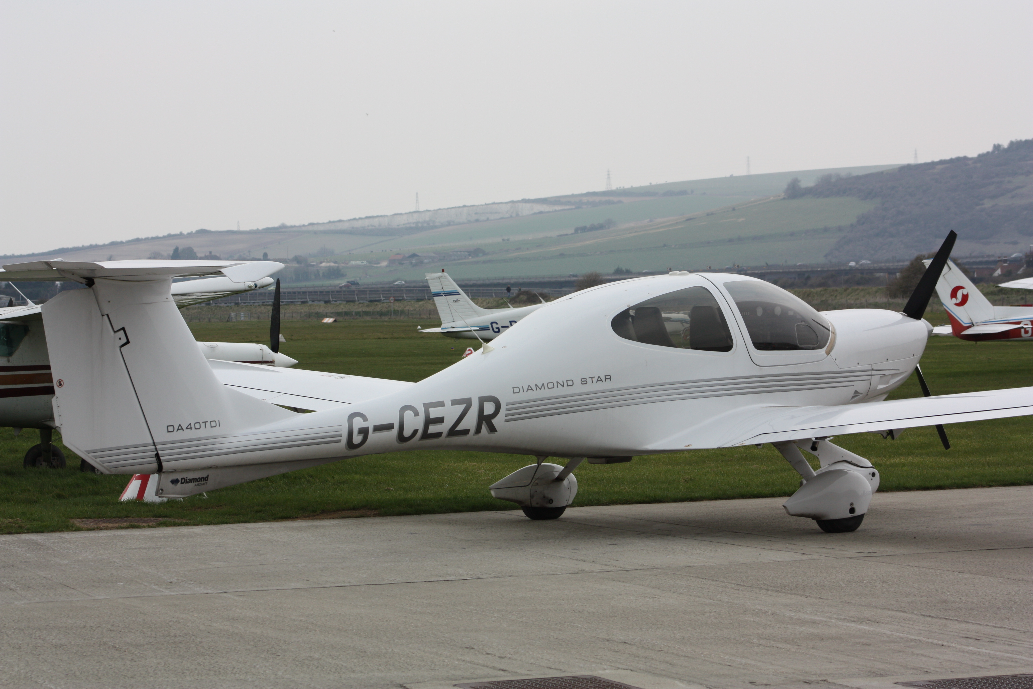 Diamond - G-CEZR